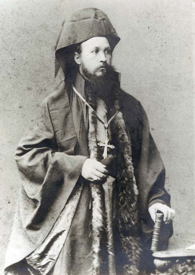 Raphael Popov was a Bulgarian priest and a participant in the struggle for an independent national church.